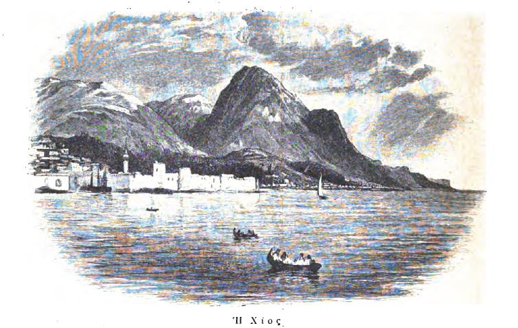 Hestia (1876) Author: Diomedes, Paulos Subject: Greek literature, Modern; Greek periodicals Publisher: [Athēnēsi : s.n. Year: 1894 Possible copyright status: NOT_IN_COPYRIGHT Language: Greek Digitizing sponsor: Google Book from the collections of: Harvard University Collection: americana]